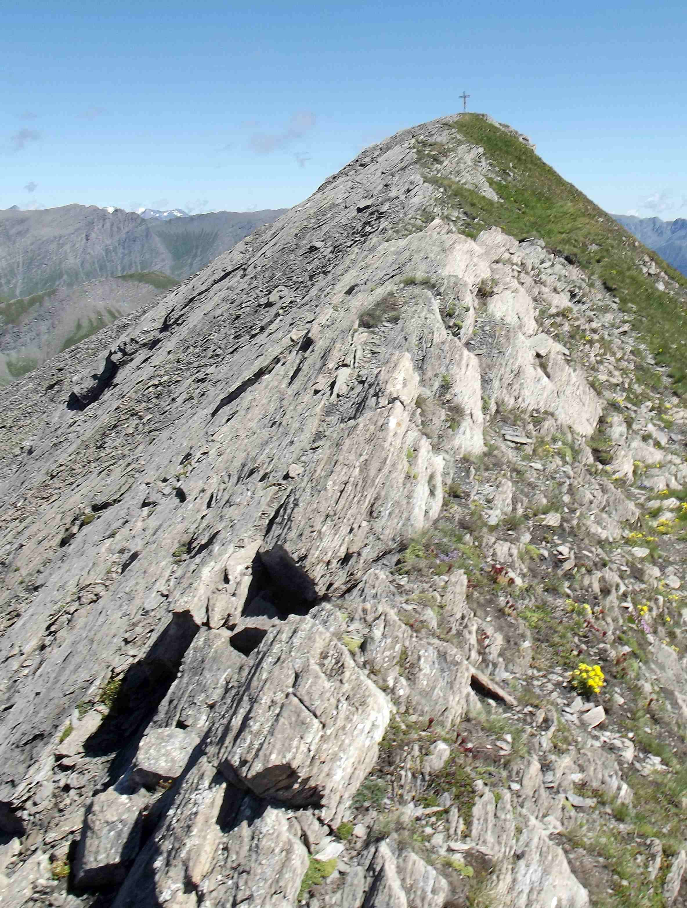 Monte Pignerol summit (Cottian Alps, TO, Italy) from south